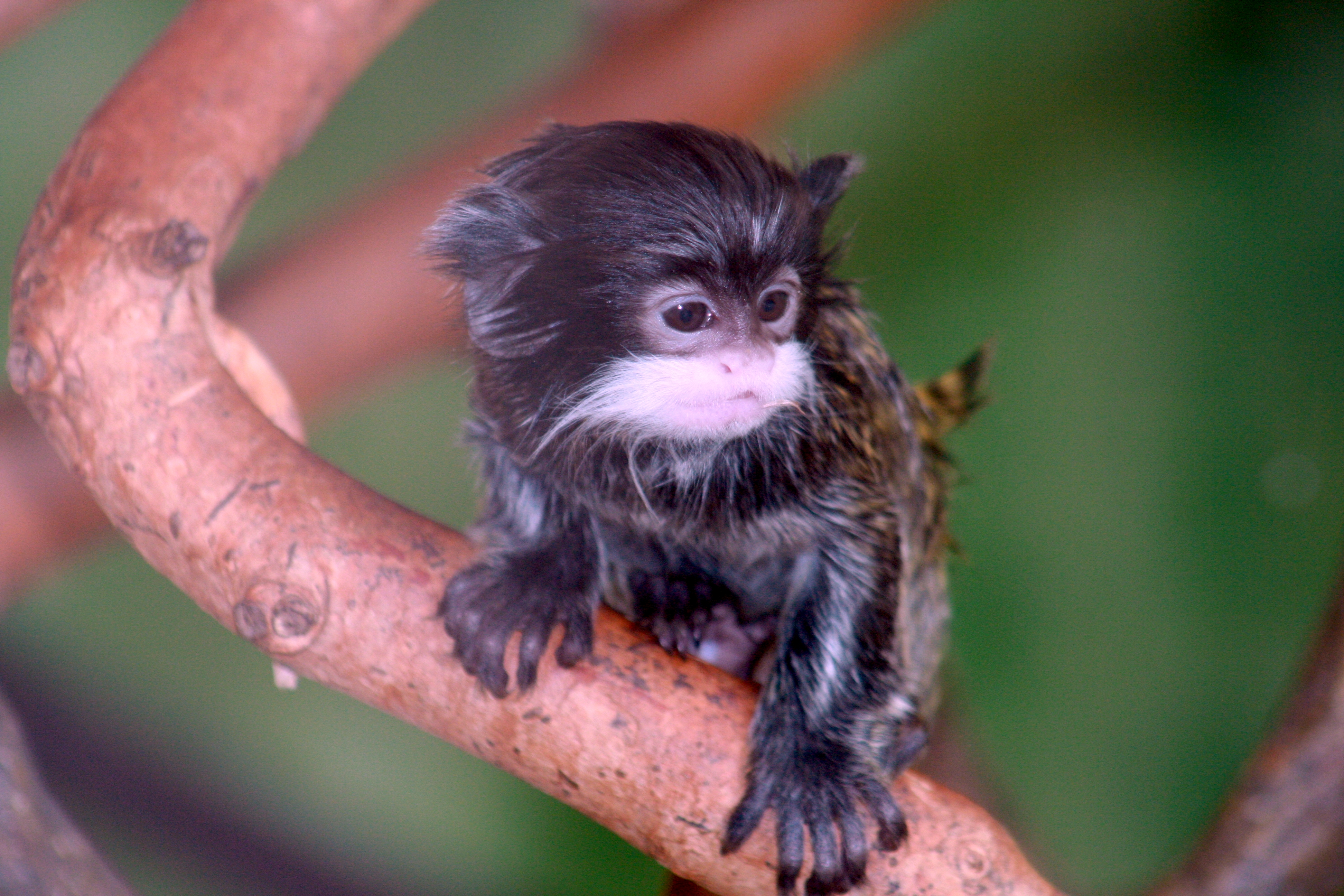 2 months old babyEmperor Tamarin